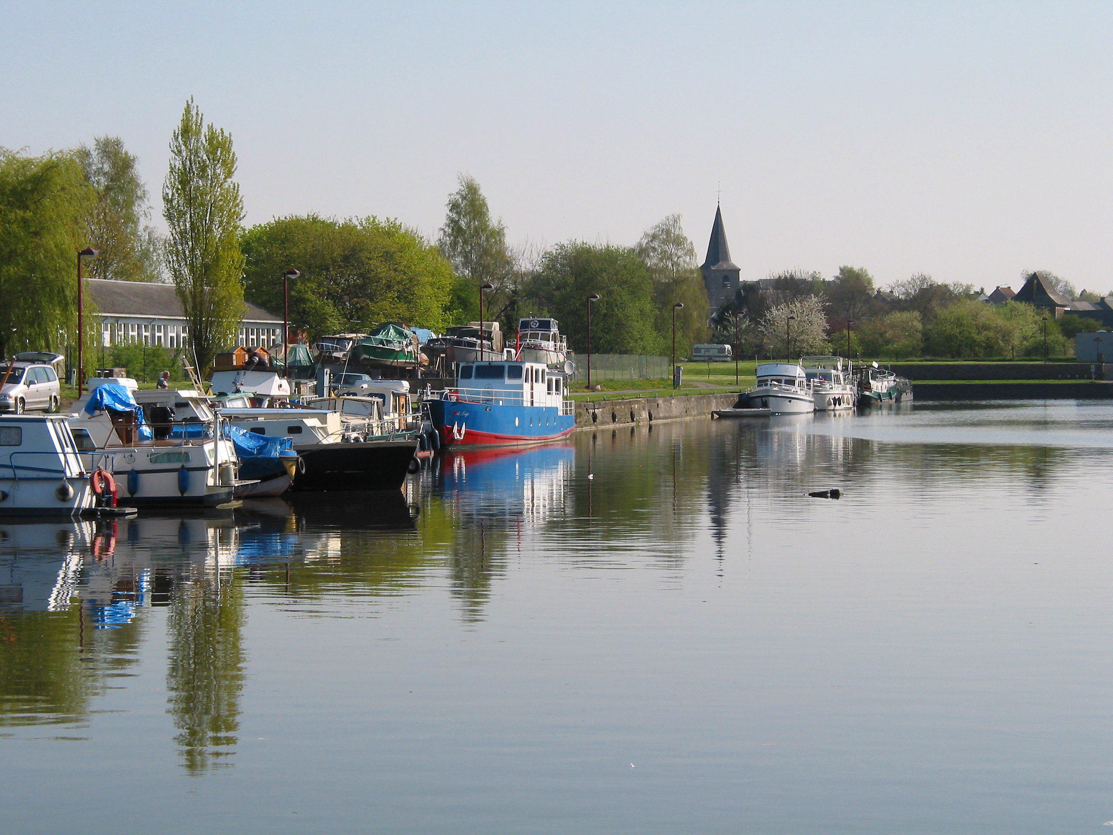 Erquelinnes (Belgium), the marina.